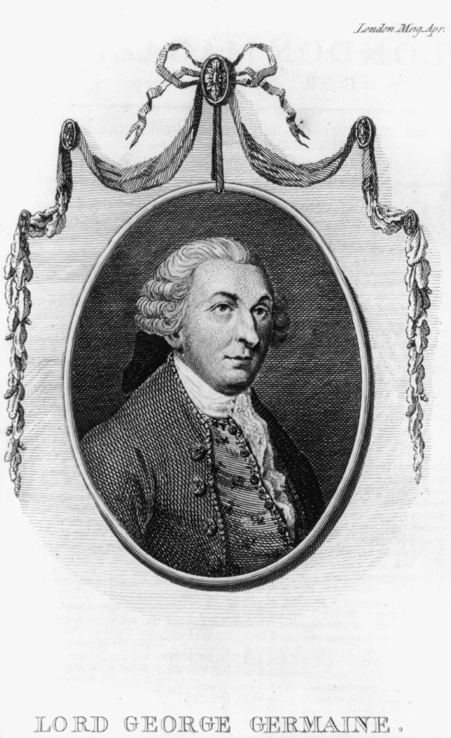 Lord George Germaine. Print shows Lord George Sackville-Germain, 1st viscount, head-and-shoulders portrait, facing right, in oval medallion suspended by ribbon from pin, with draped ribbon forming border across top and sides. Published in April 1780. Illus. in: The London magazine, 1780 (April), pp. 147-148. Repository: Library of Congress Rare Book and Special Collections Division Washington, D.C.